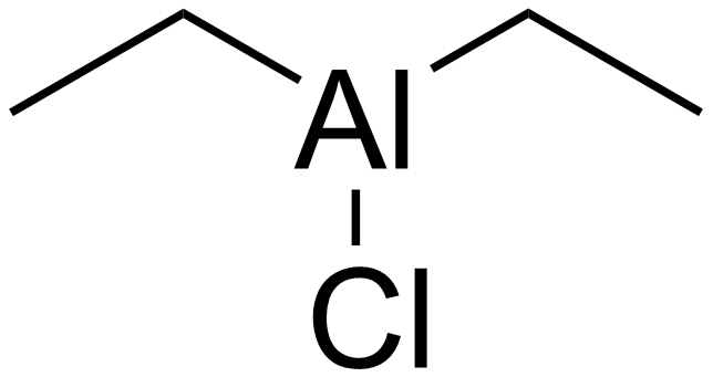 Chemical structure of diethylaluminium chloride (diethylaluminum chloride)